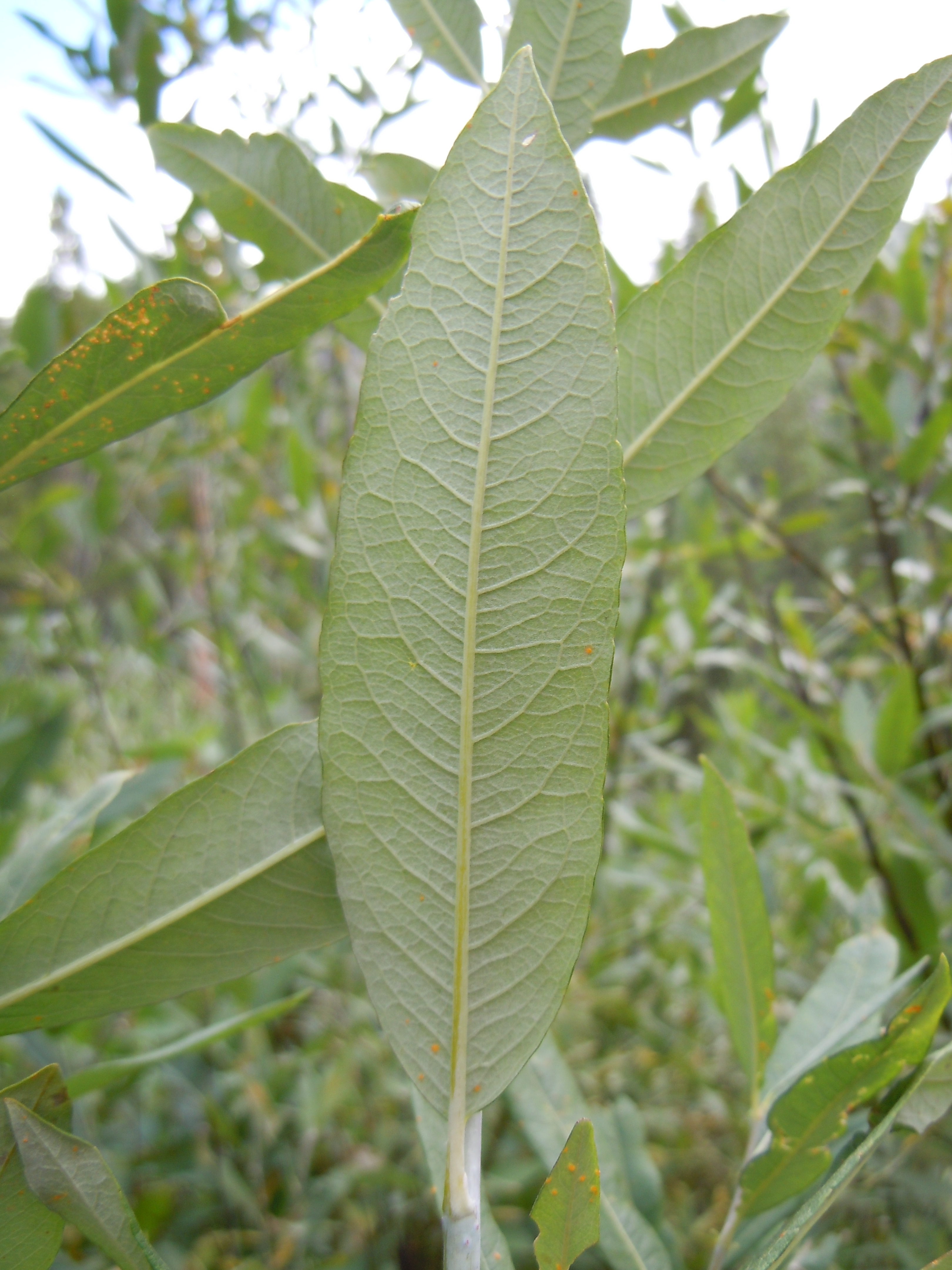 The twig tips and lower leaf surfaces are distinctively glaucous.